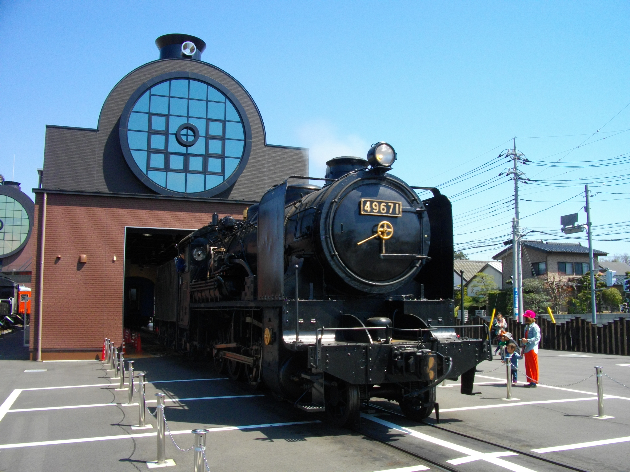 JNR Class 9600 steam locomotive 49671